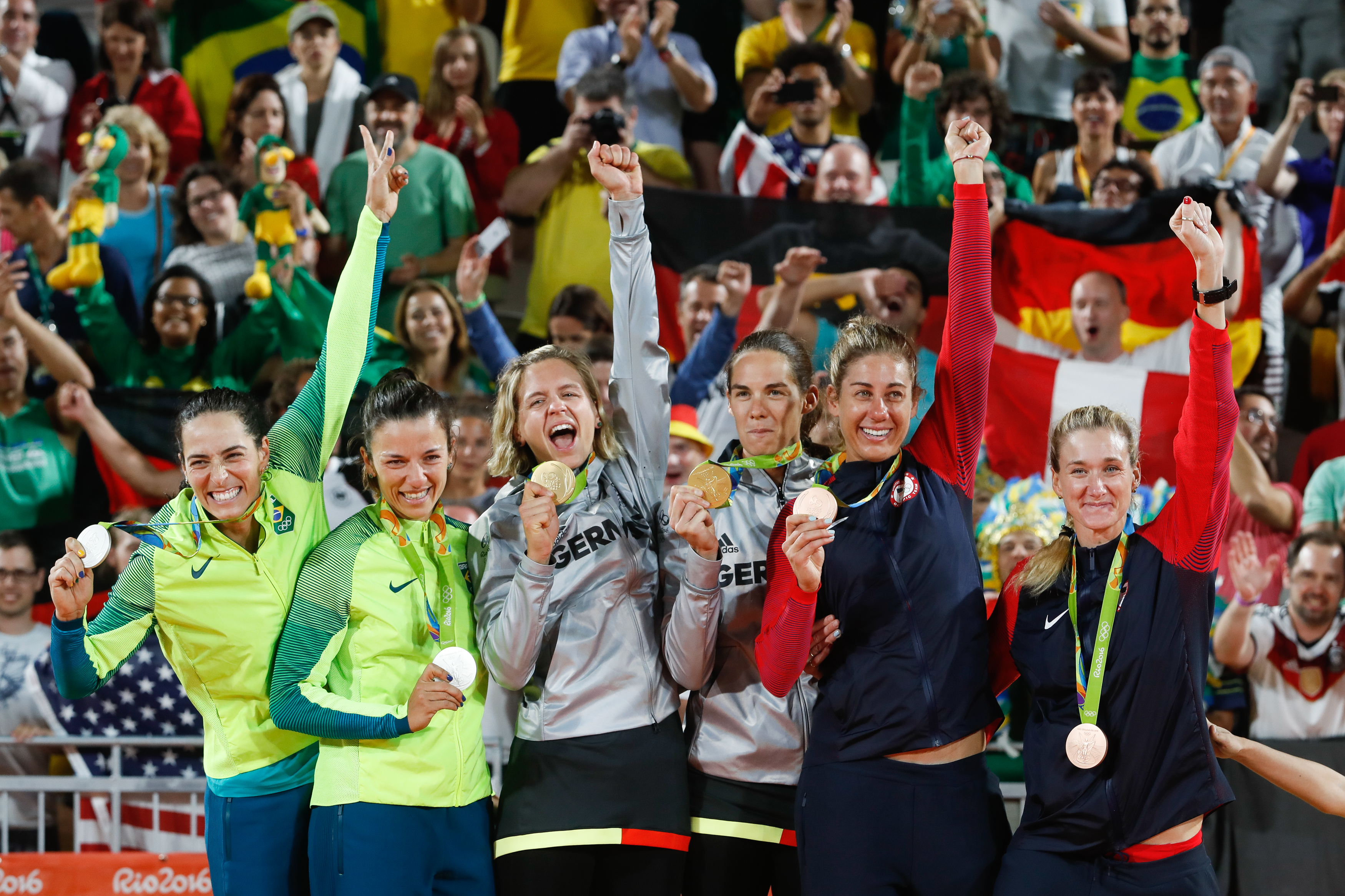 Rio de Janeiro - As alemãs Ludwig e Walkenhorst, levam ouro na final do vôlei de praia, contra as brasileiras, Ágatha e Bárbara, nos Jogos Olímpicos Rio 2016 ( Fernando Frazão/Agência Brasil)